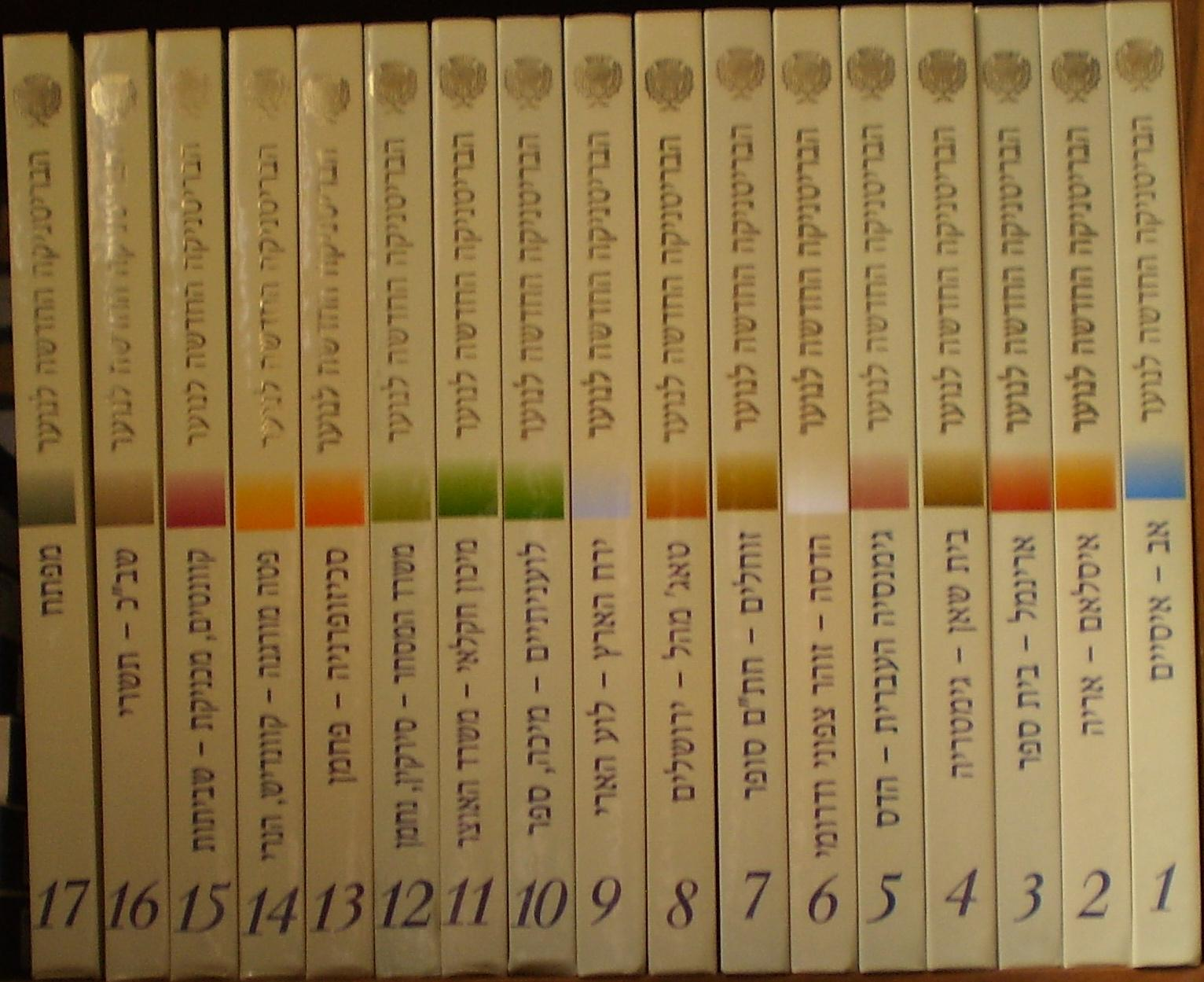 Habritannica Hachadasha Lanoar ("The New Britannica for the Youth") - A Hebrew version of Children's Britannica